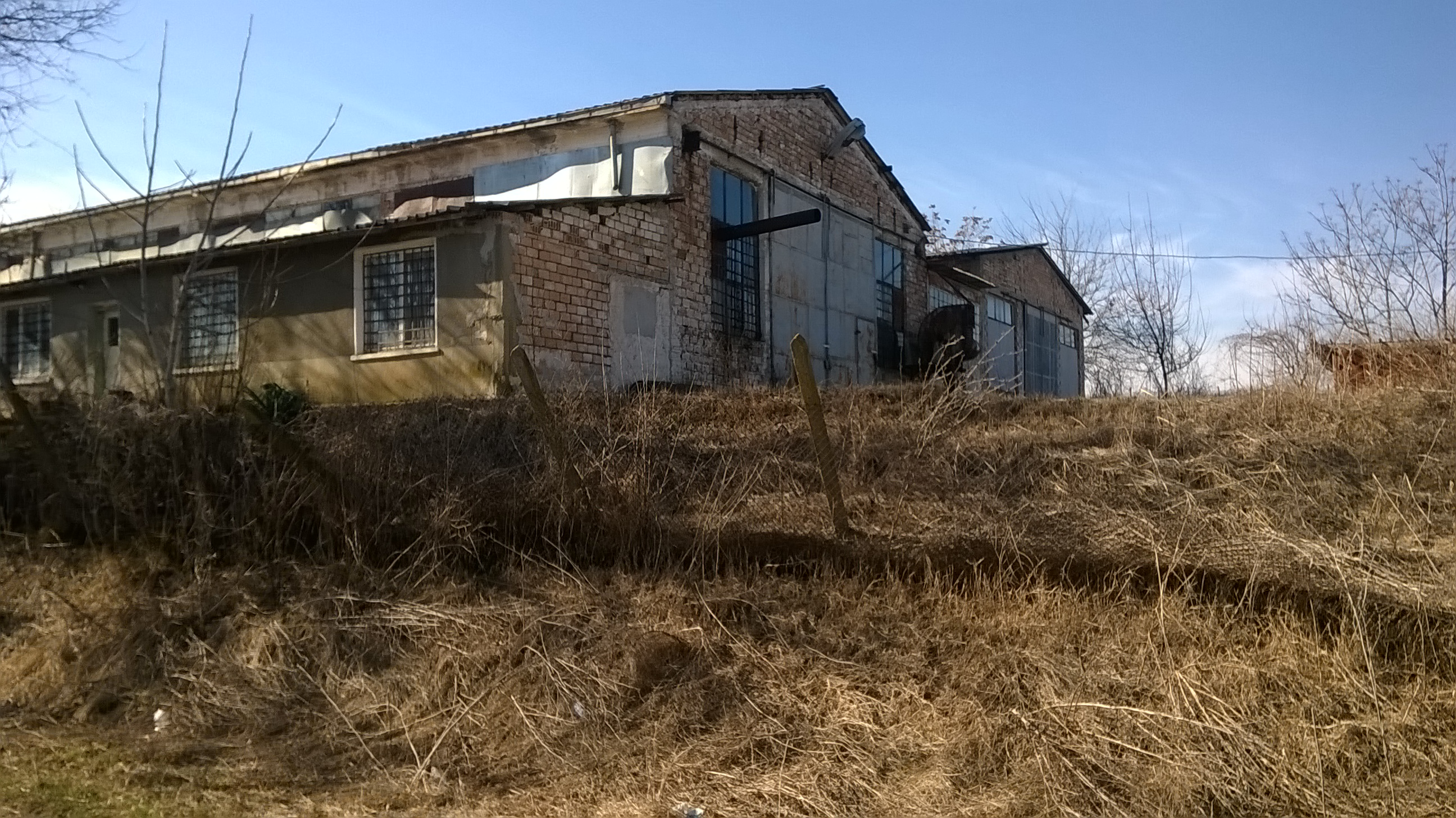 Фабрика в Полски Сеновец